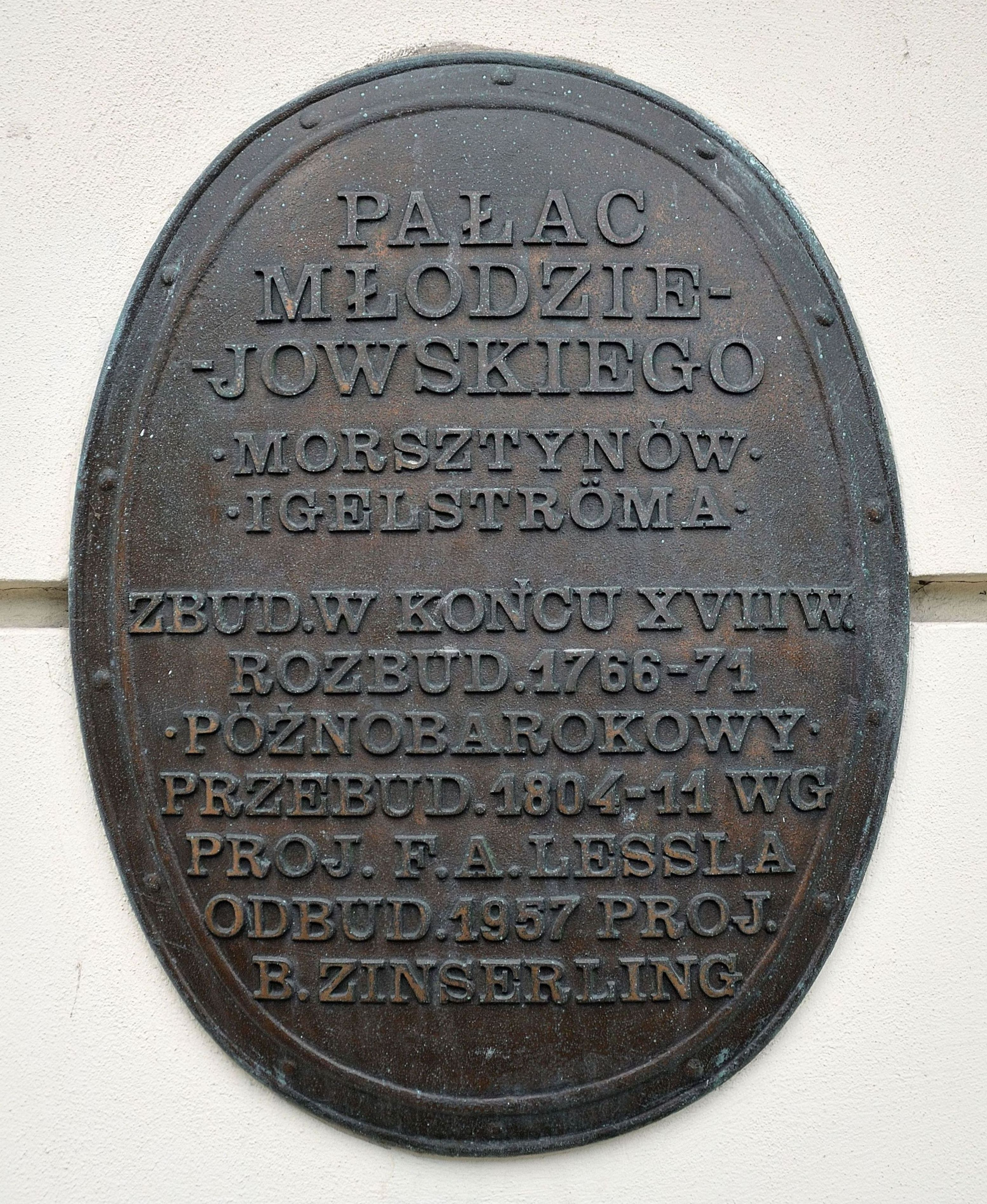 Młodziejowski Palace in Warsaw information plaque